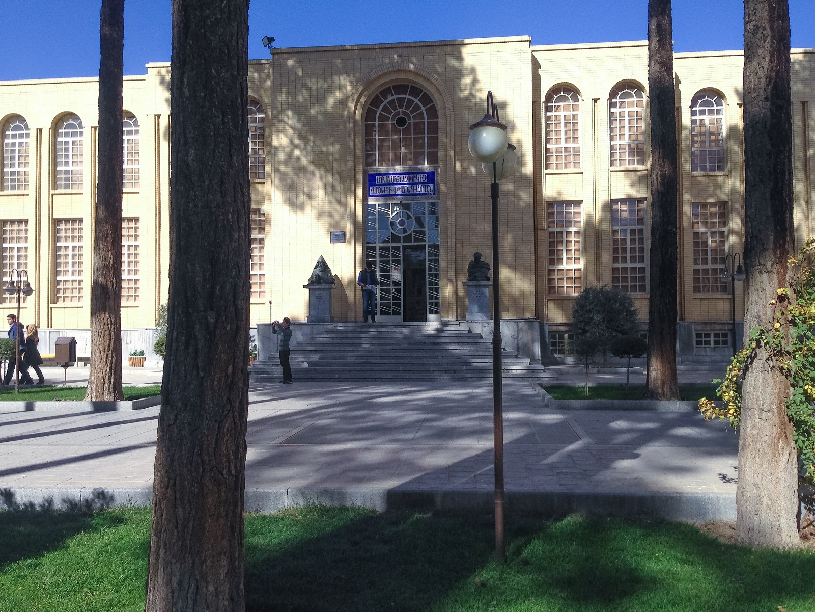 Museum of Khachatur Kesaratsi, in front of the Holy Savior Cathedral (the Vank), in Isfahan's New Julfa, Iran Fārsi: Muze ye Xāčātur Kesārātsi, ru-be-ru ye Kelisā ye Āmenāperkič (Vānk), dar Now-Jolfā ye Esfehān, Irān.